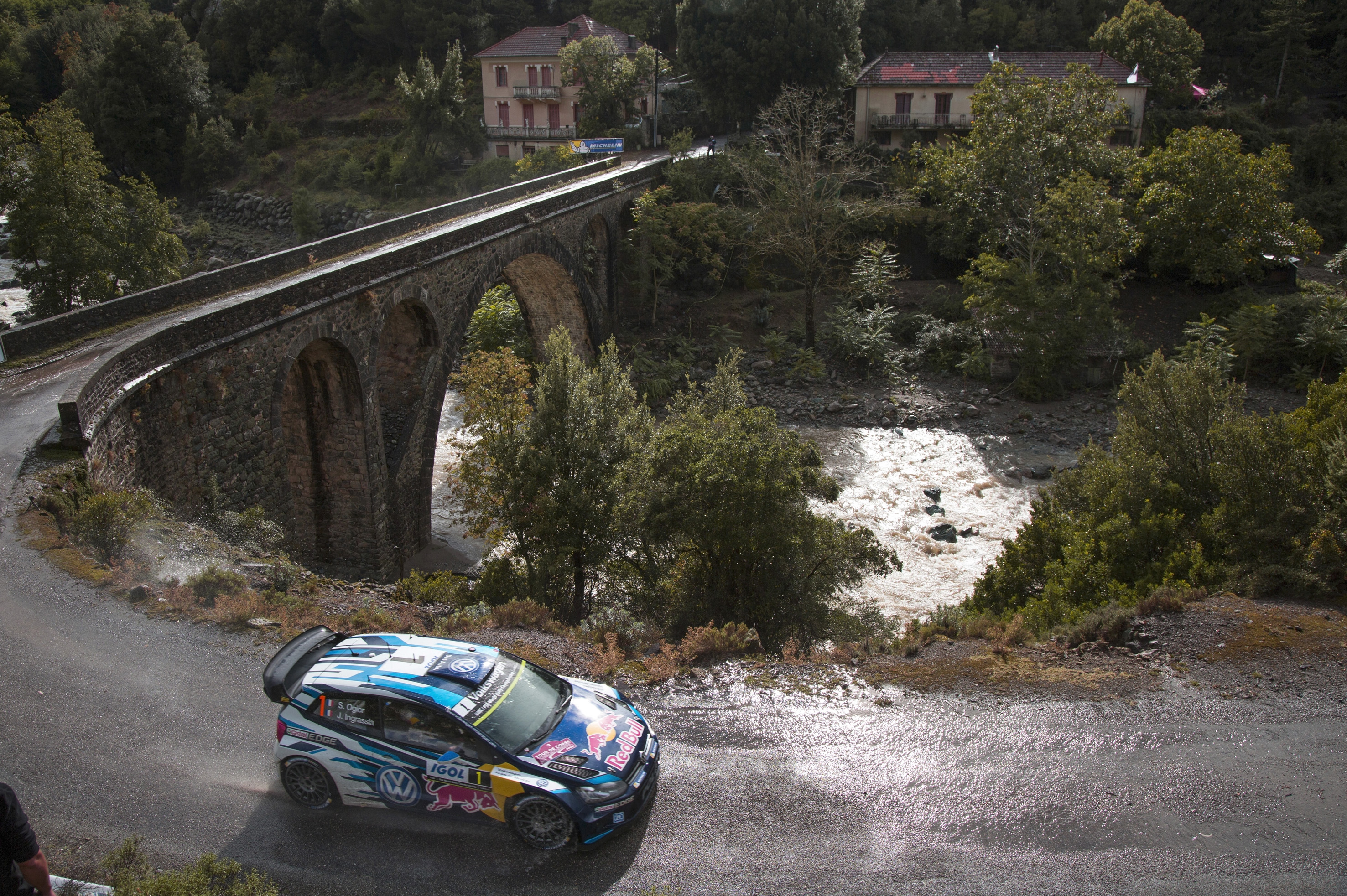 Sébastien Ogier and co-driver Julien Ingrassia in their VW Polo R WRC at the 2015 Rally France.